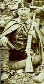 United cheta of Macedonian-Adreanople Opolchenie - voevodas Hristo Silyanov, Ivan Popov and Vasil Chekalarov from IMARO